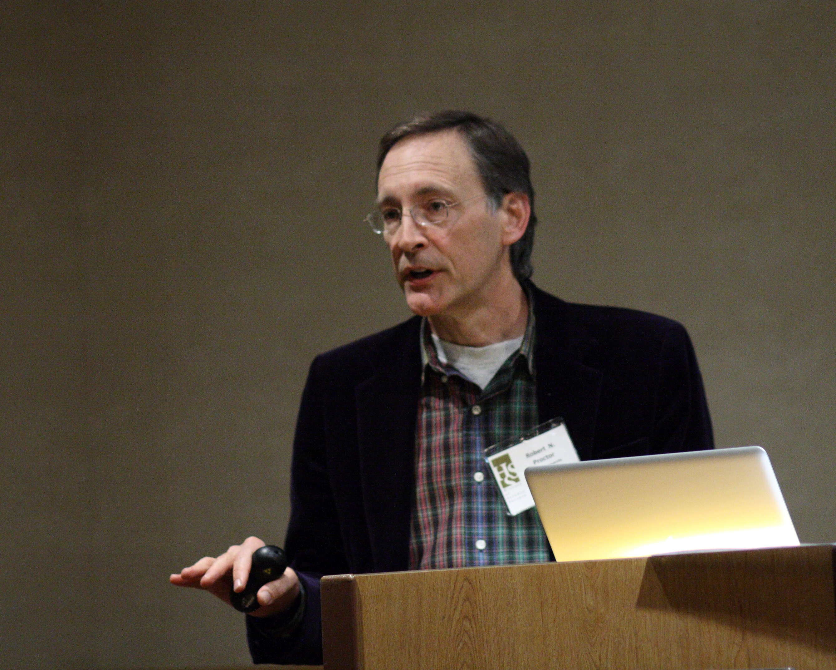 Robert N. Proctor, American historian of science, at the 2009 meeting of the History of Science Society in Phoenix (Arizona).